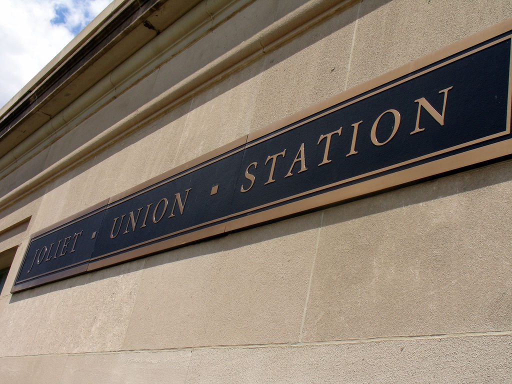 Joliet Union Station sign